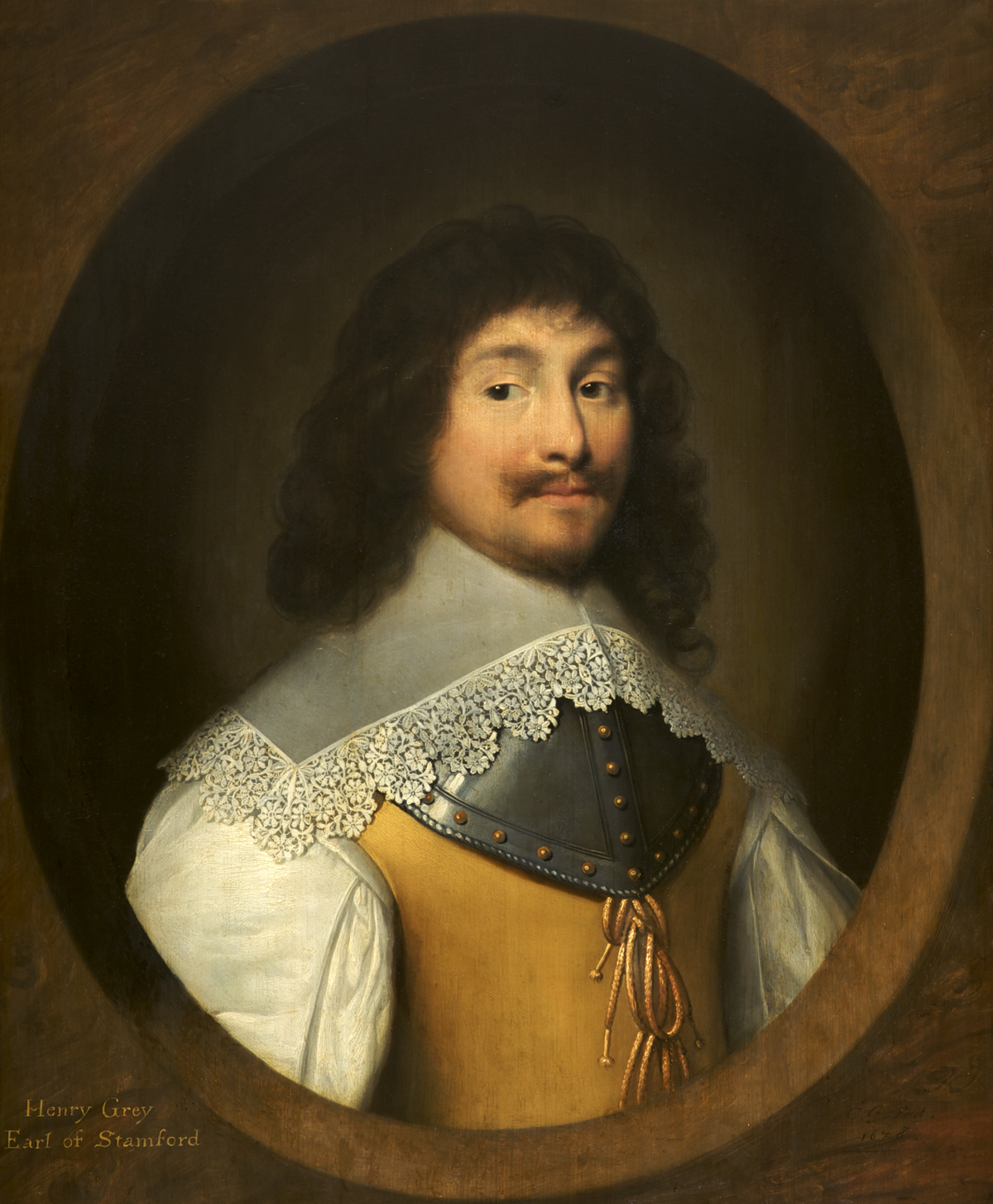 Portrait of Henry Grey, 1st Earl of Stamford